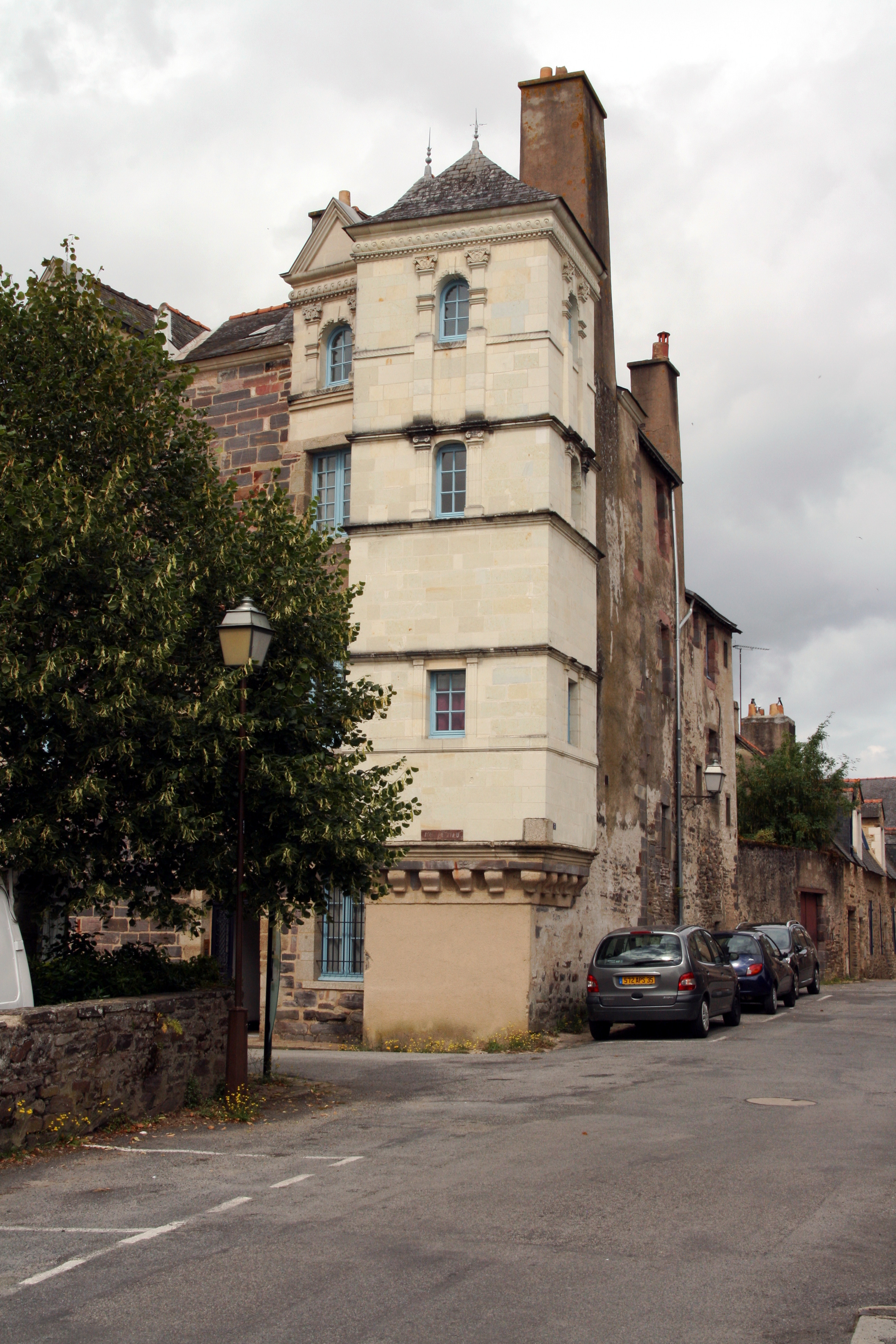 La Tour Richelieu (Richelieu tower), du Plessis street, Redon, Brittany, France.